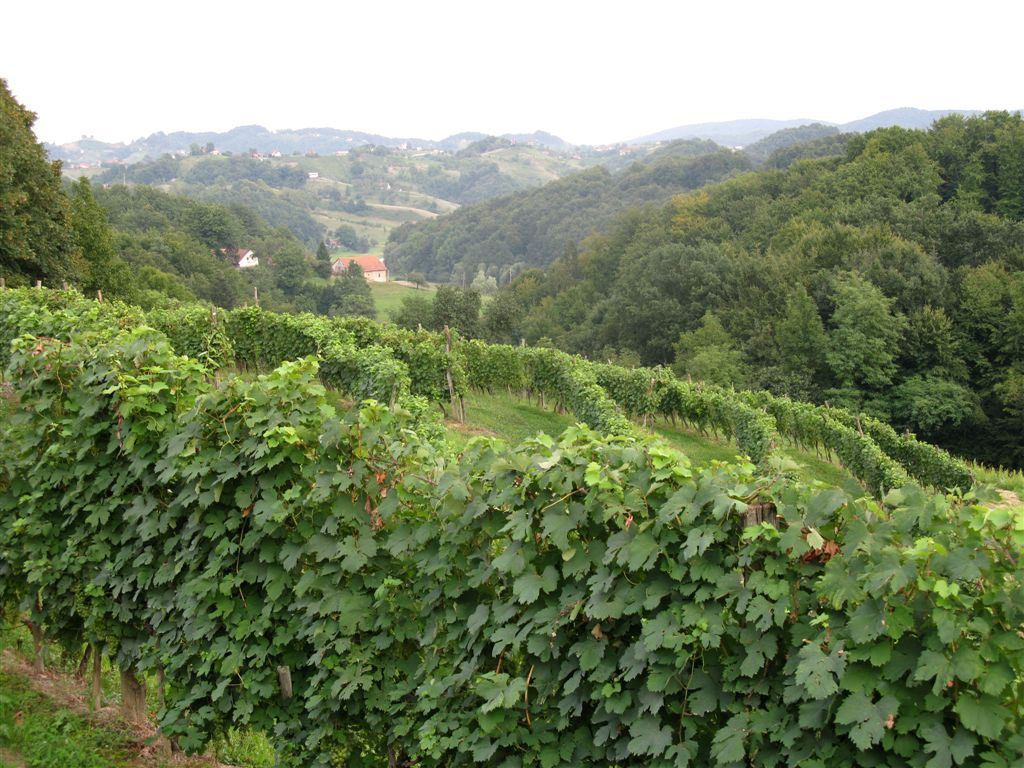 A photo I took of a rural scene at Mali Okič, Haloze, Slovenia